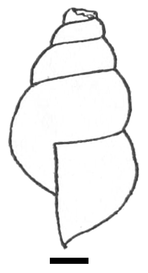 drawing of lateral view of a shell of Blanfordia simplex. The scale is 1 mm.